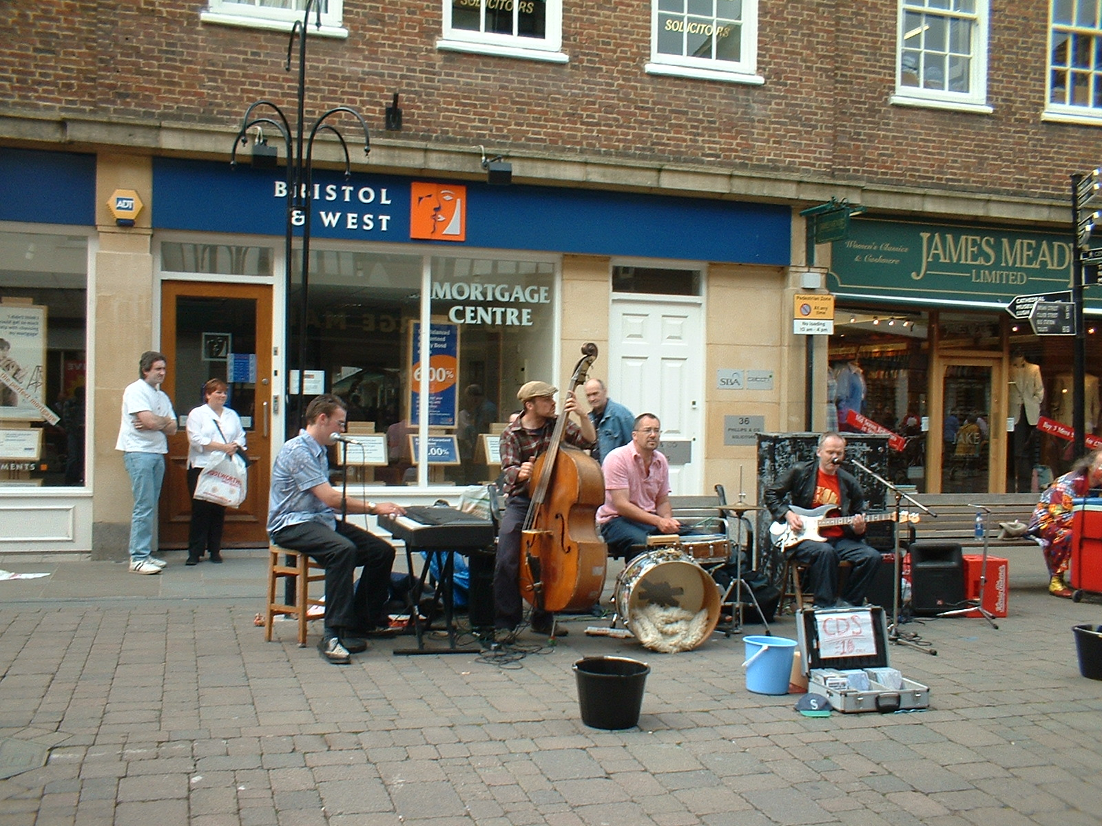 Bybilder fra Salisbury City pictures from Salisbury. High Street.